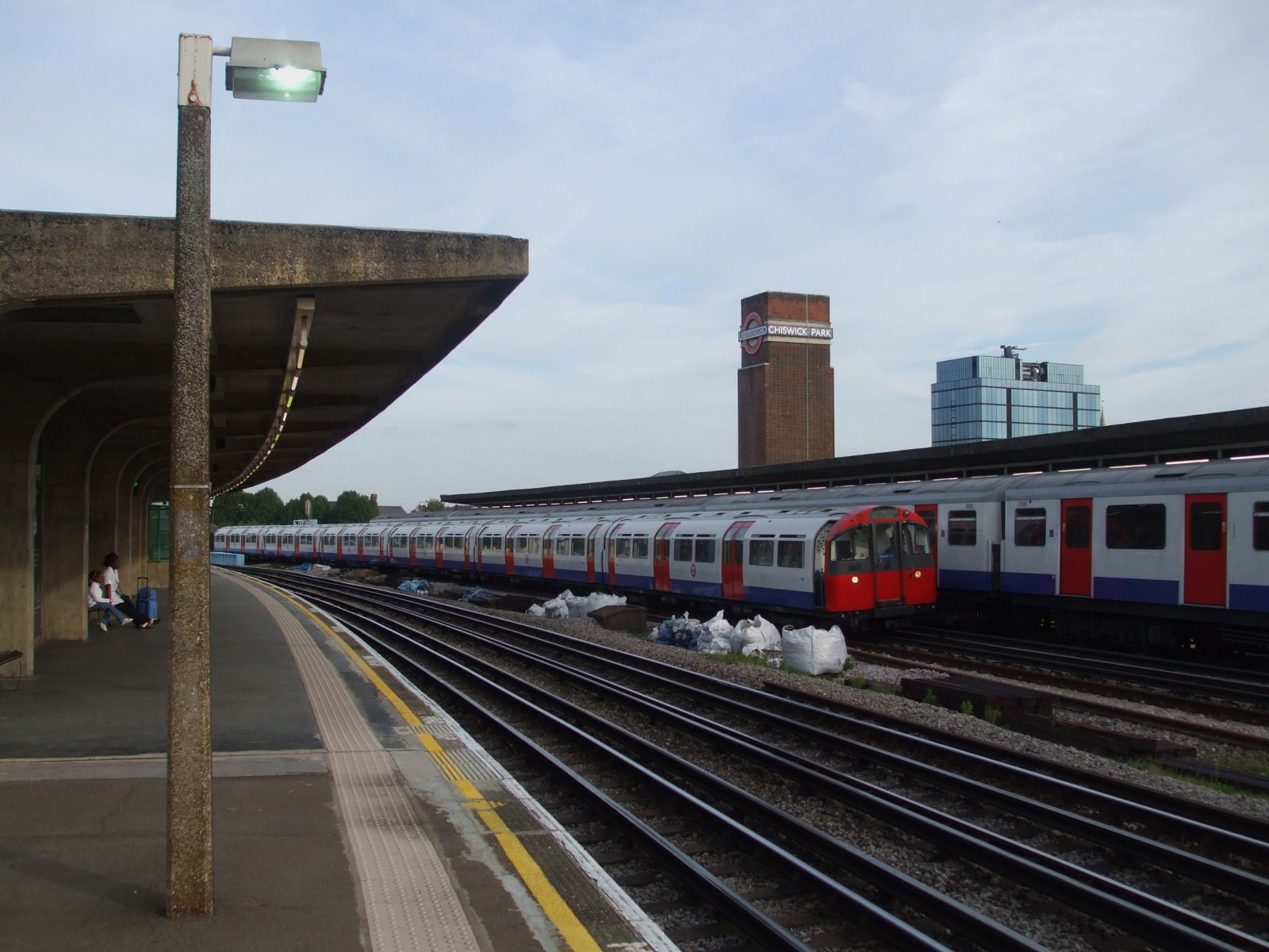 Chiswick Park tube station eastbound platform looking east, with a District line D Stock train calling with a westbound service, and a westbound Piccadilly line train running fast through the station. Note no platforms for the Piccadilly line.